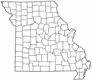 Modified from Image:MOMap-doton-Springfield.png